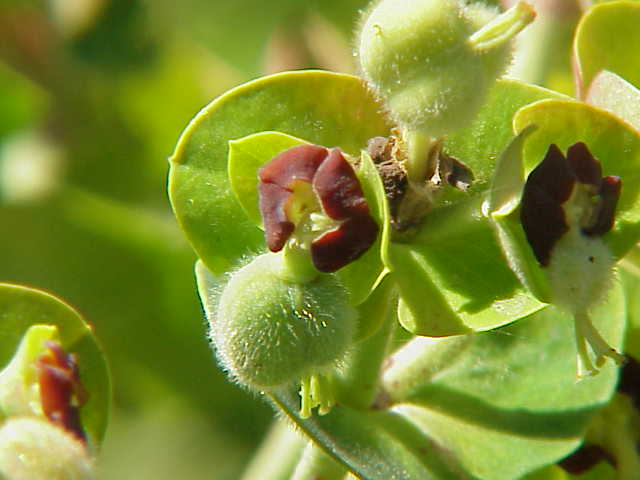 Species: Euphorbia characias Family: Euphorbiaceae Image No. 6